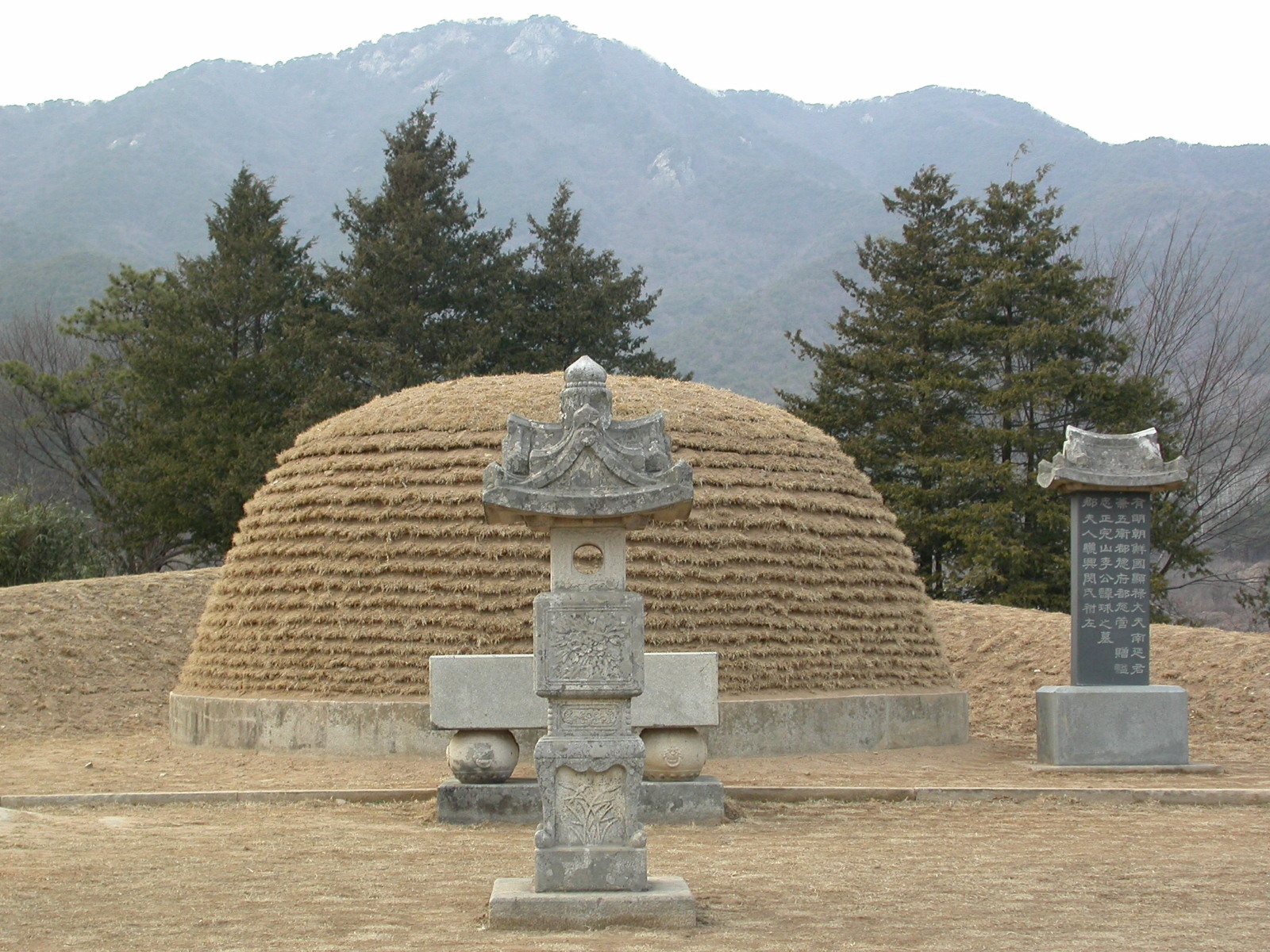 Tomb of Prince Namyeongun